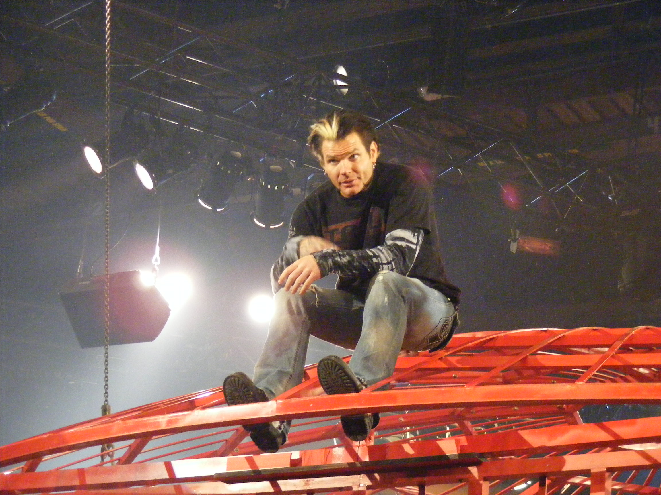 Jeff Hardy, sitting on top of the Steel Asylum cage after a run-in, during a live Impact show.